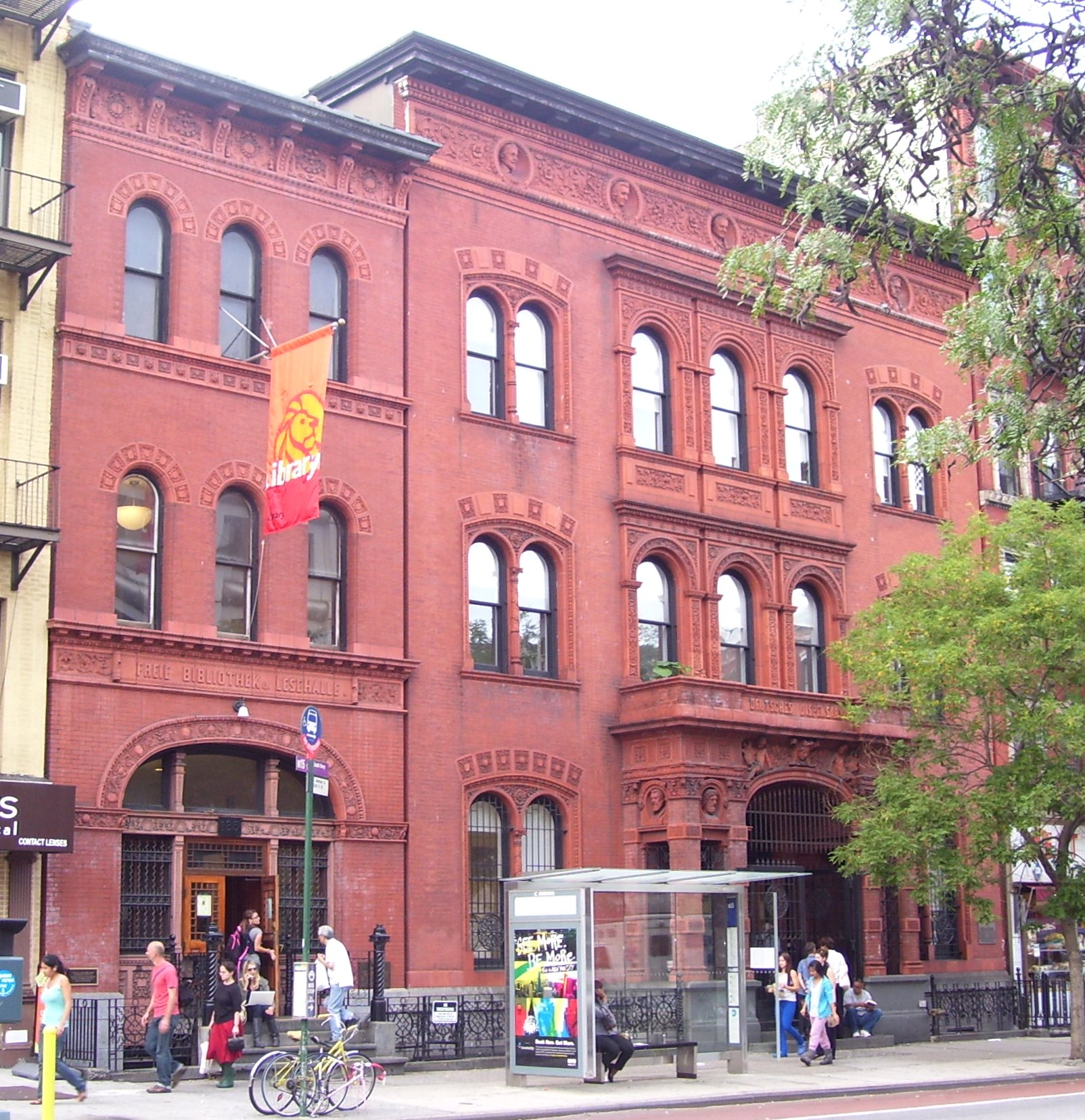 The former Freie Bibliothek und Lesehalle (left; now the Ottendorfer Branch of the New York Public Library) and Deutsches Dispensary (right; now Stuyvesant Polyclinic Hospital) on Second Avenue between St. Marks Place (8th Street) and East 9th Street in the East Village, Manhattan, New York. Both were designed by William Schickel and built in 1883-1884, at a time when there were large numbers of German immigrants in the area. The Dispensary was part of the German Hospital, which later moved uptown and lost the "German" part of its name during World War I. (It became Lenox Hill Hospital.) Both buildings are NYC landmarks: the Library was designated in 1977, and the interior in 1981; the dispensary in 1976. {Sources: AIA Guide to NYC (4th ed.), Guide to NYC Landmarks (4th ed.))